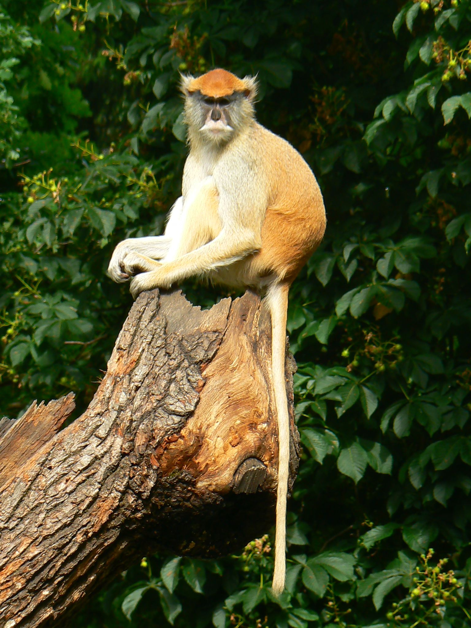 Patas Monkey at Zoo Ohrada, Hluboká nad Vltavou, Czech Republic